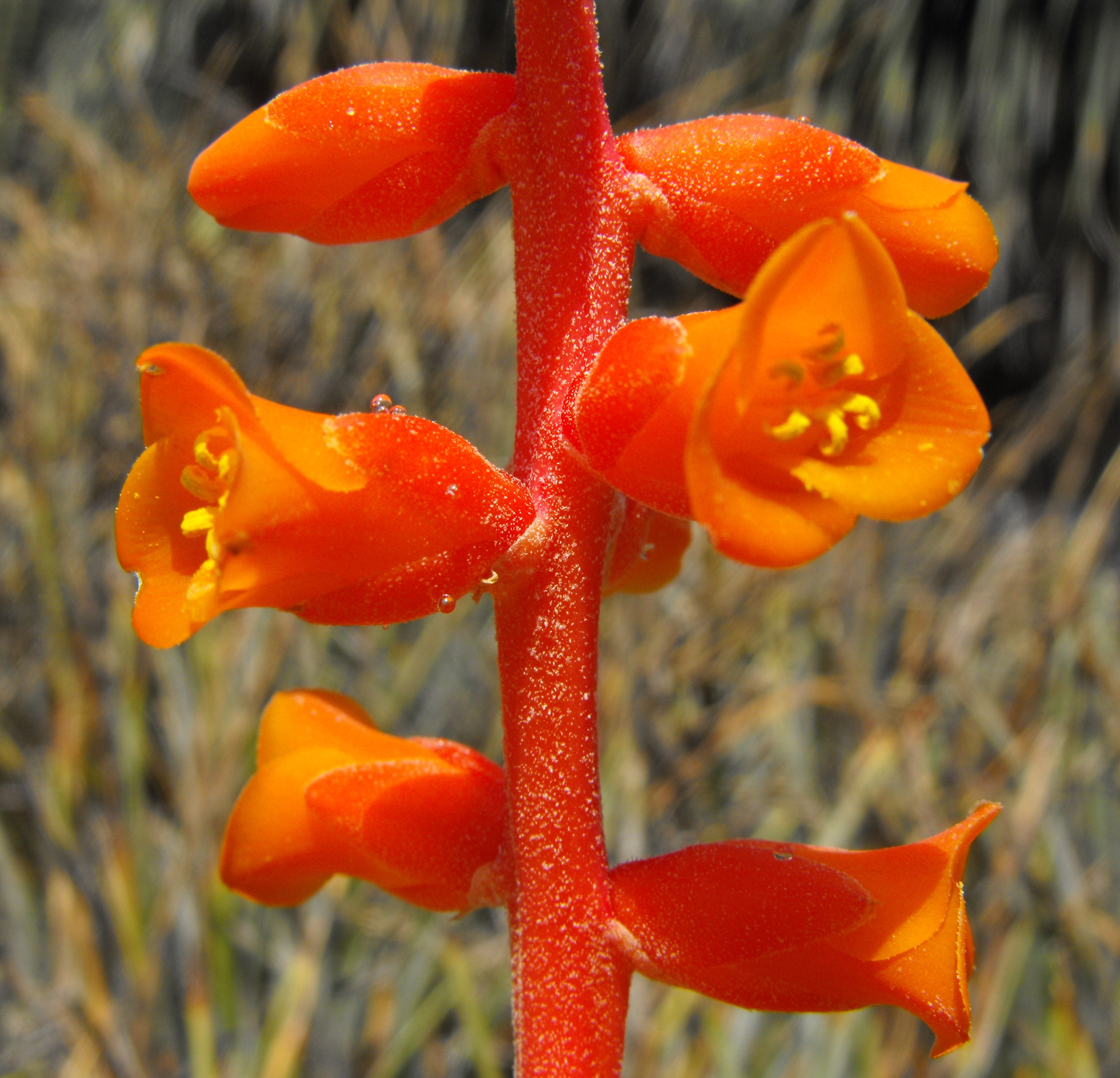 Dyckia tuberosa var. tuberosa. At the Huntington Library & Botanical Gardens in San Marino, Southern California, U.S. Identified by sign.